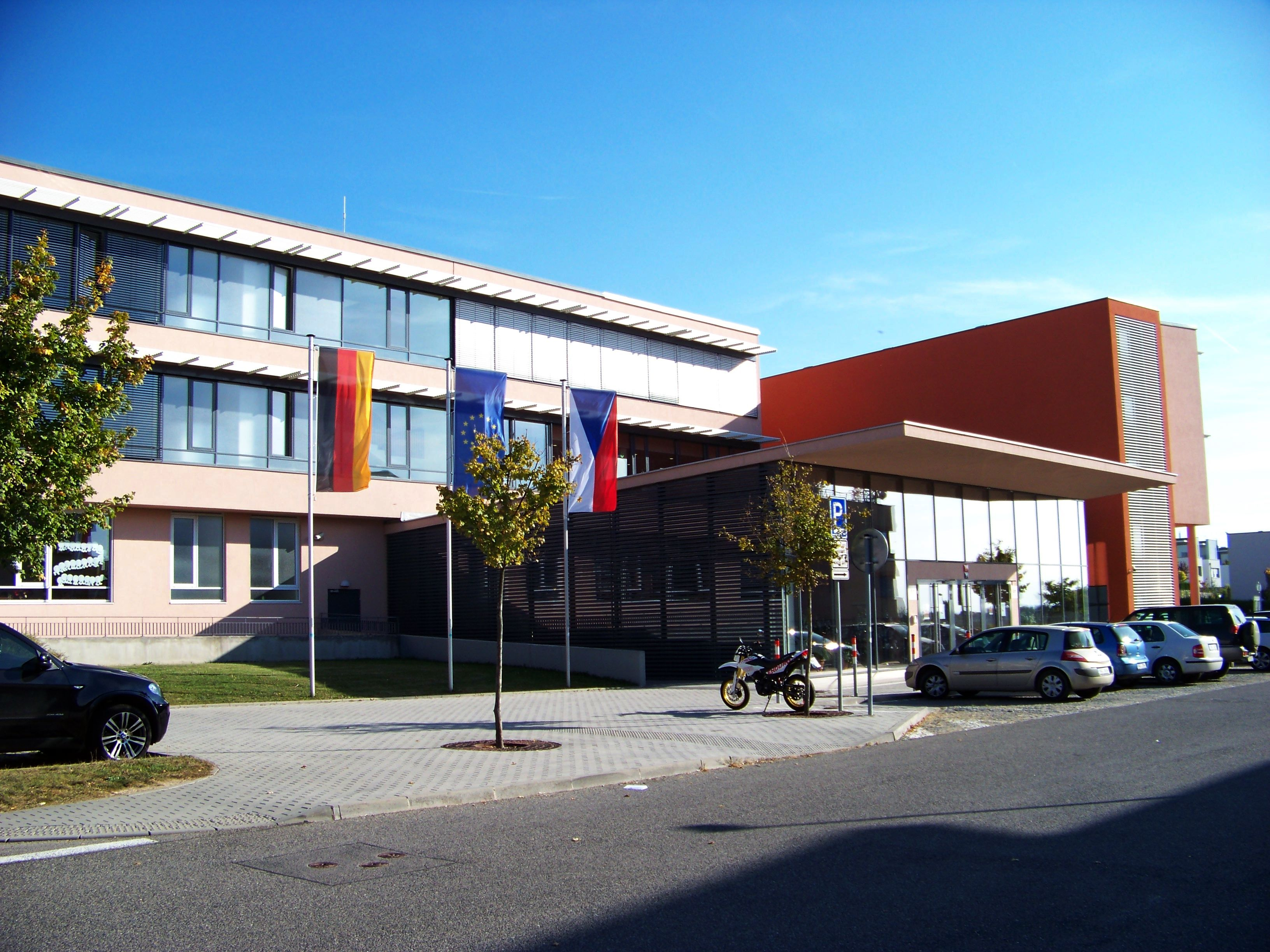 Prague-Jinonice, the Czech Republic. Schwarzenberská 700/1, German School in Prague.